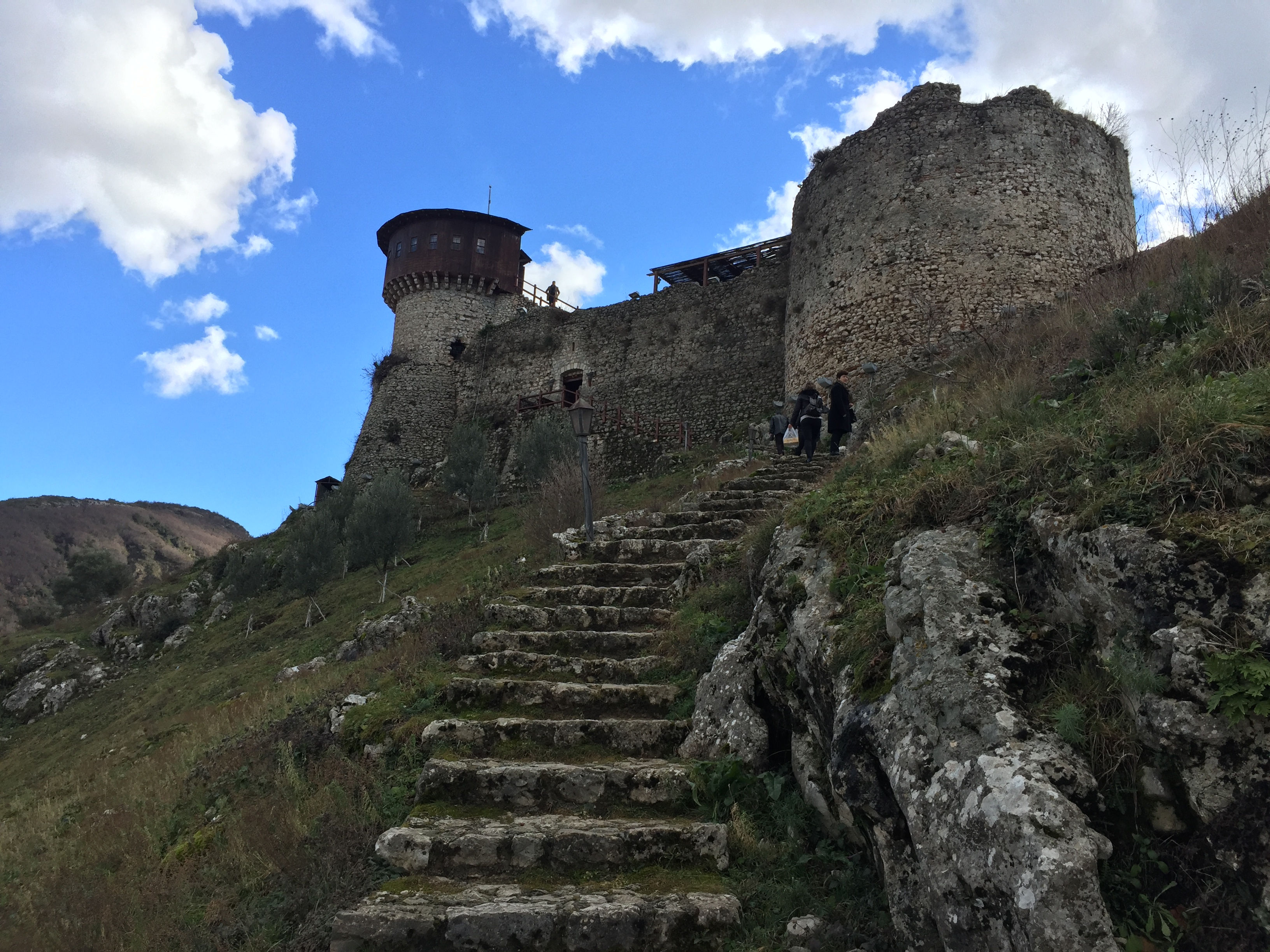 Pamja nga jashte e kalase